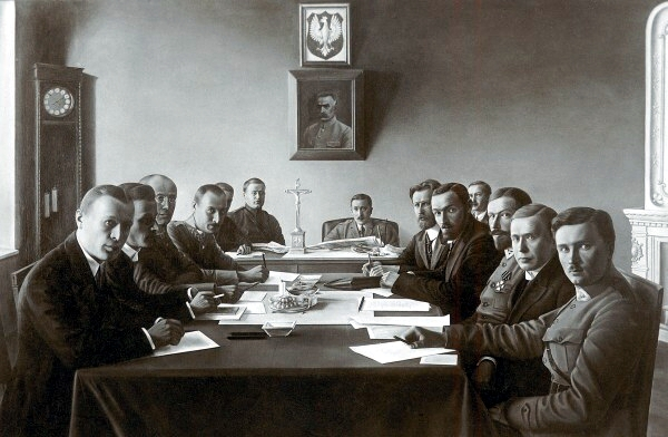 Suwalki Conference. Polish delegates (W. Przesmycki, Juliusz Łukasiewicz, M. Mackiewicz, A. Romer) at left, Lithuanian (Aleksandras Šumskis, Bronius Kazys Balutis, Maksimas Katchė, Voldemaras Vytautas Čarneckis, Mykolas Biržiška) at right